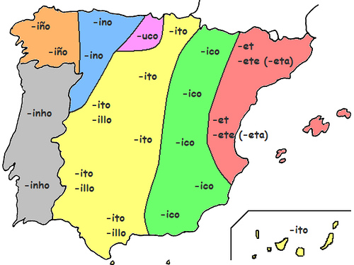 Diminutive suffixes in Spanish, Portuguese, and Catalan